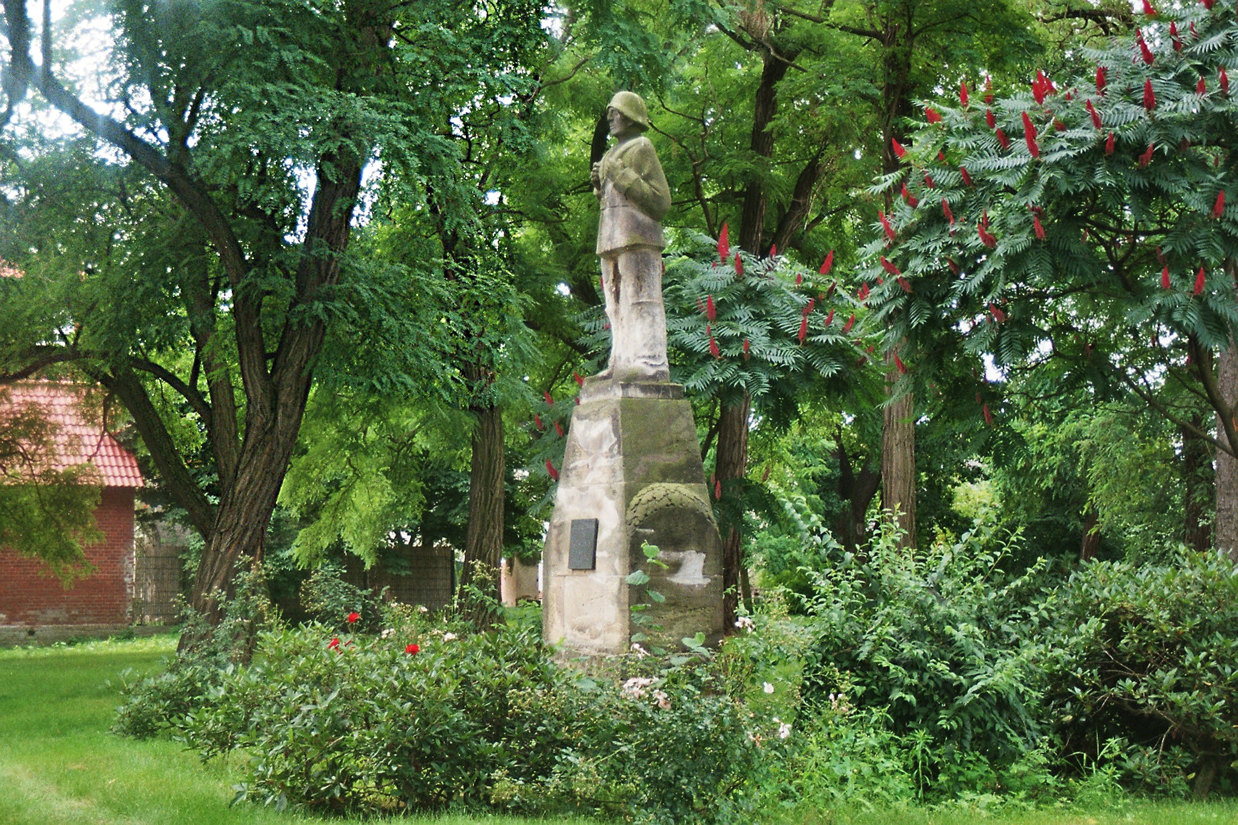 Niegripp, war memorial